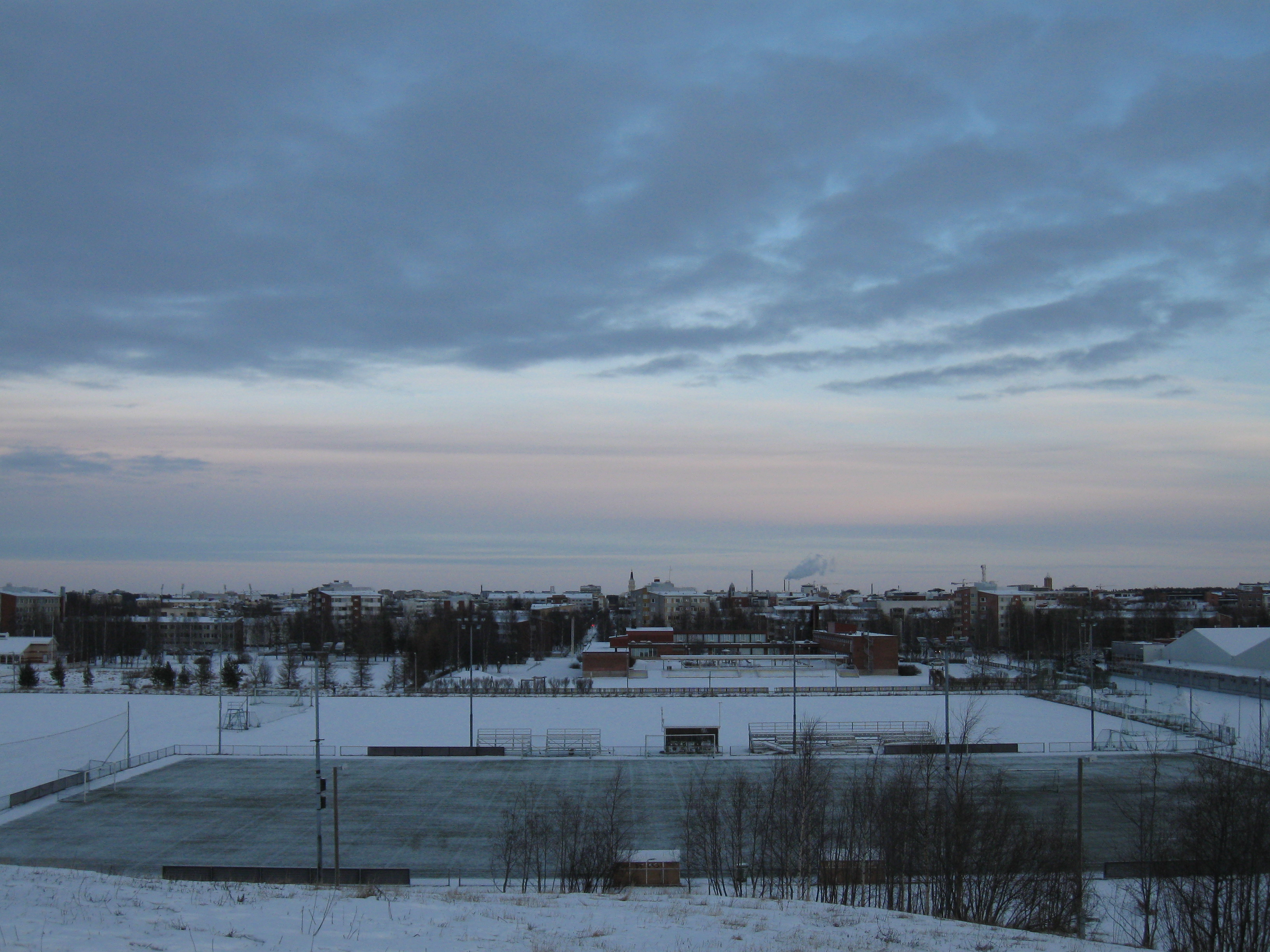 The city of Oulu seen from the Heinäpää sports area hill towards North.